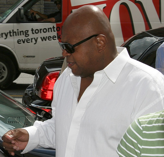 Charles S. Dutton at the 2007 Toronto International Film Festival.